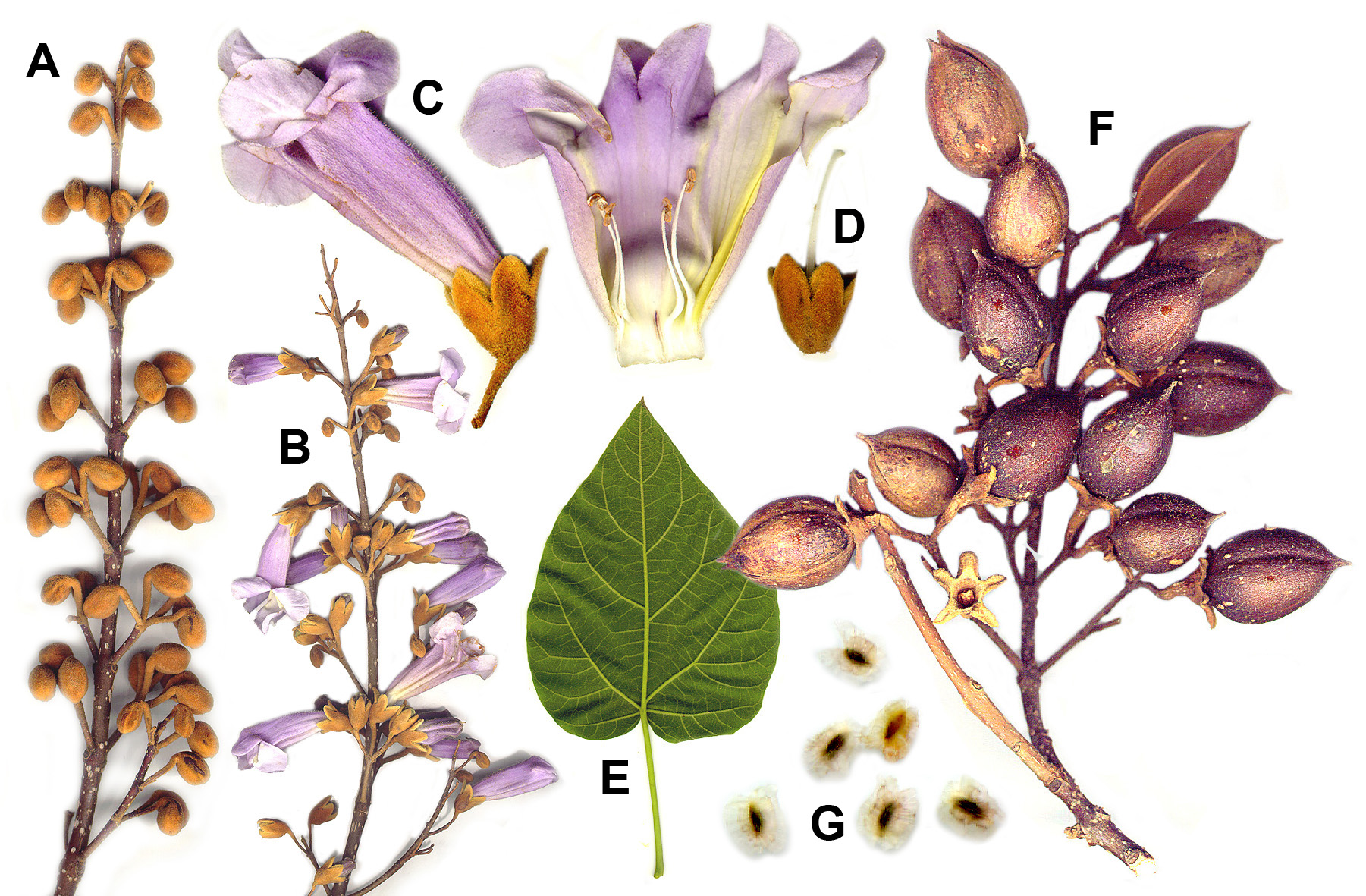 Paulownia tomentosa (author: Mihailo Grbić)